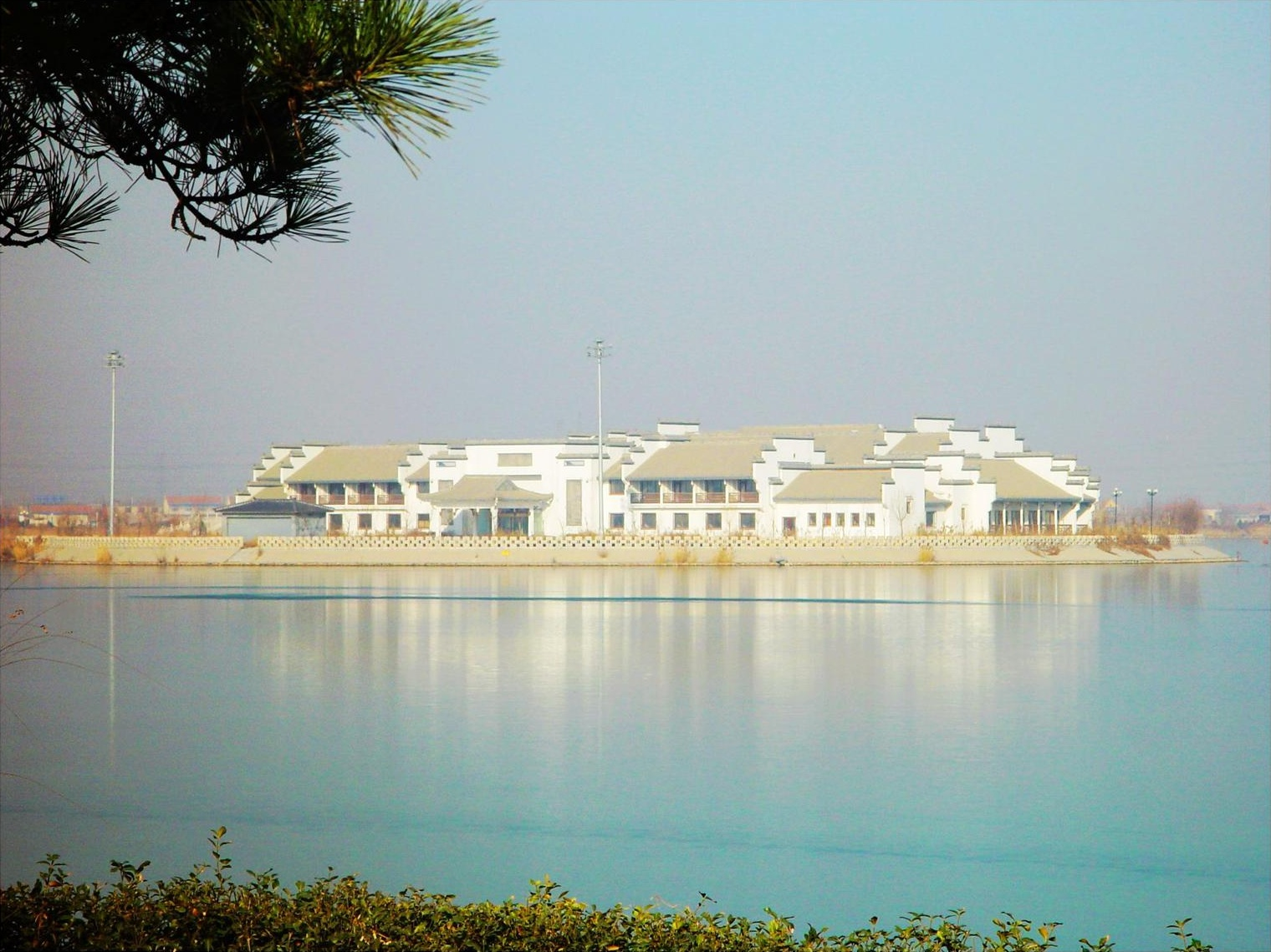 the building is a hotel which built by southern china style.